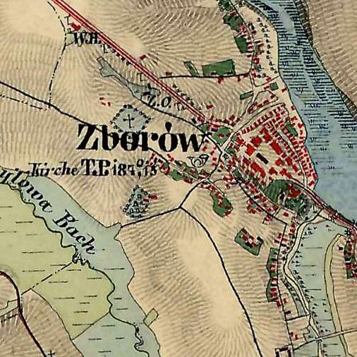 Zborów am Strypa, Franzisco-Josephinische Landesaufnahme, um 1869